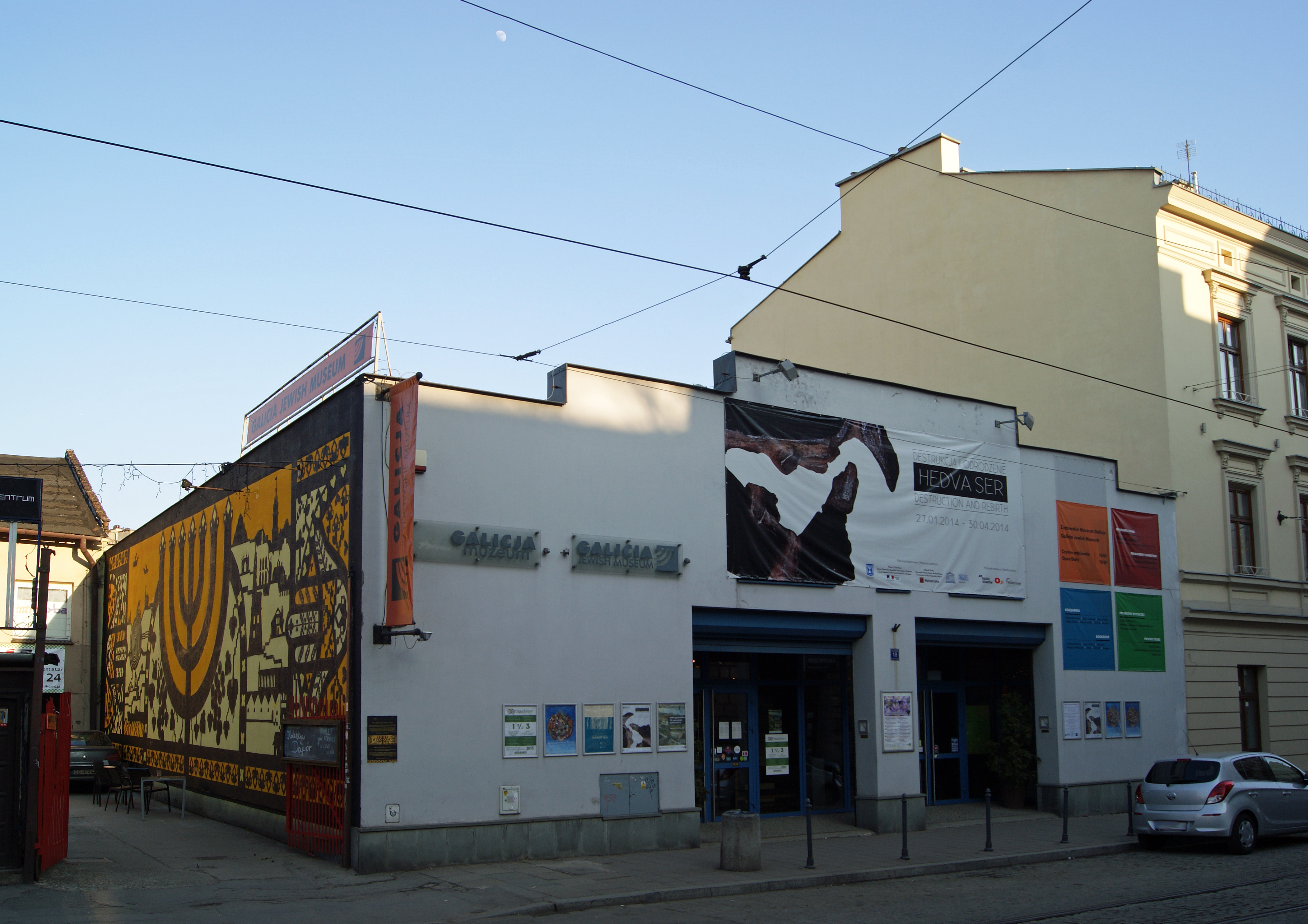 Galicia Jewish Museum, 18 Dajwór street, Kazimierz, Kraków, Poland